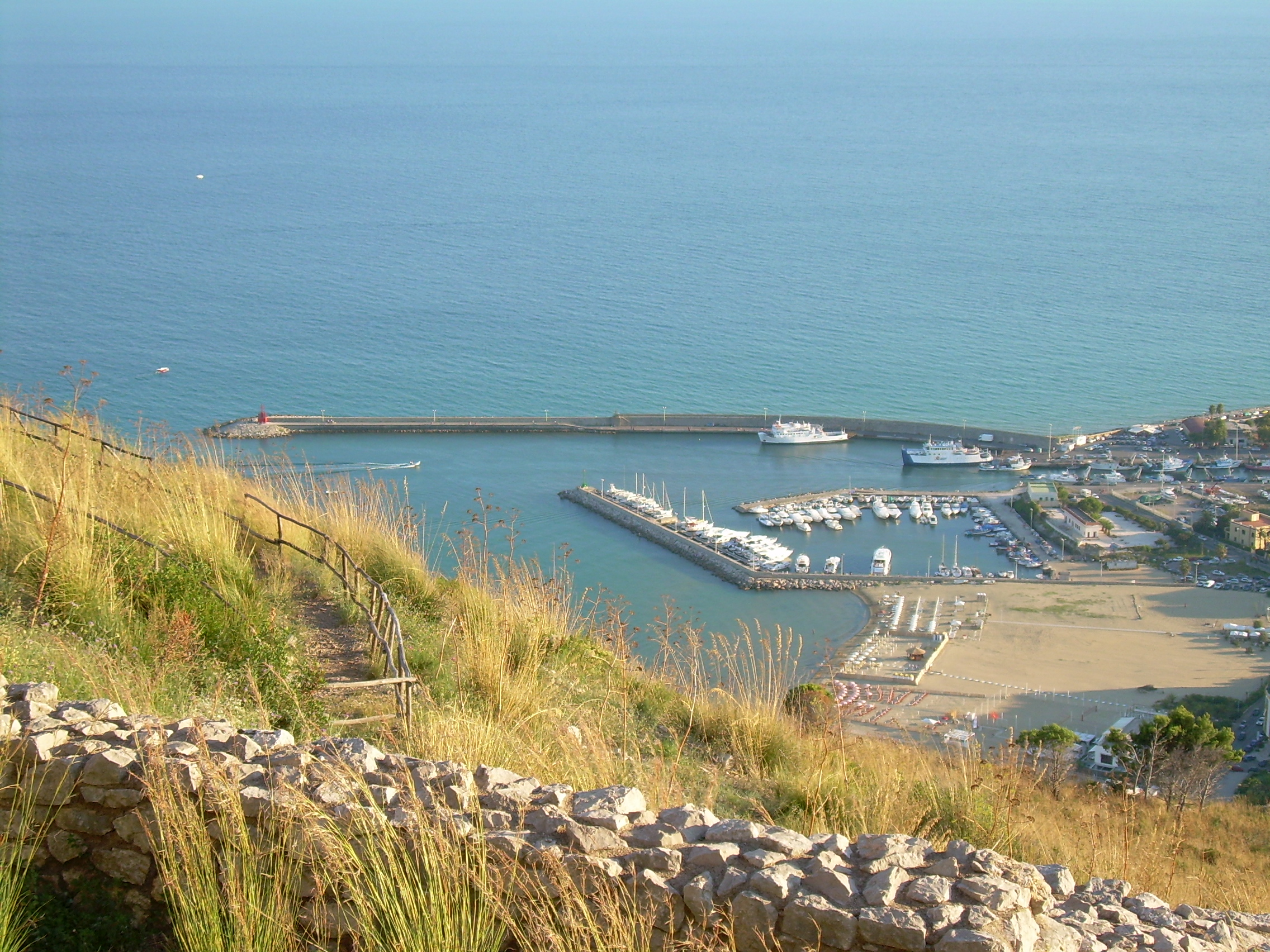 Porto di Terracina visto da Monte Giove